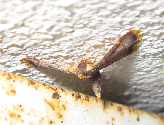 Hypsopygia mauritialis - 19 mm wingspan (Boisduval 1833) Picture was taken in Réunion - 300 m altitude